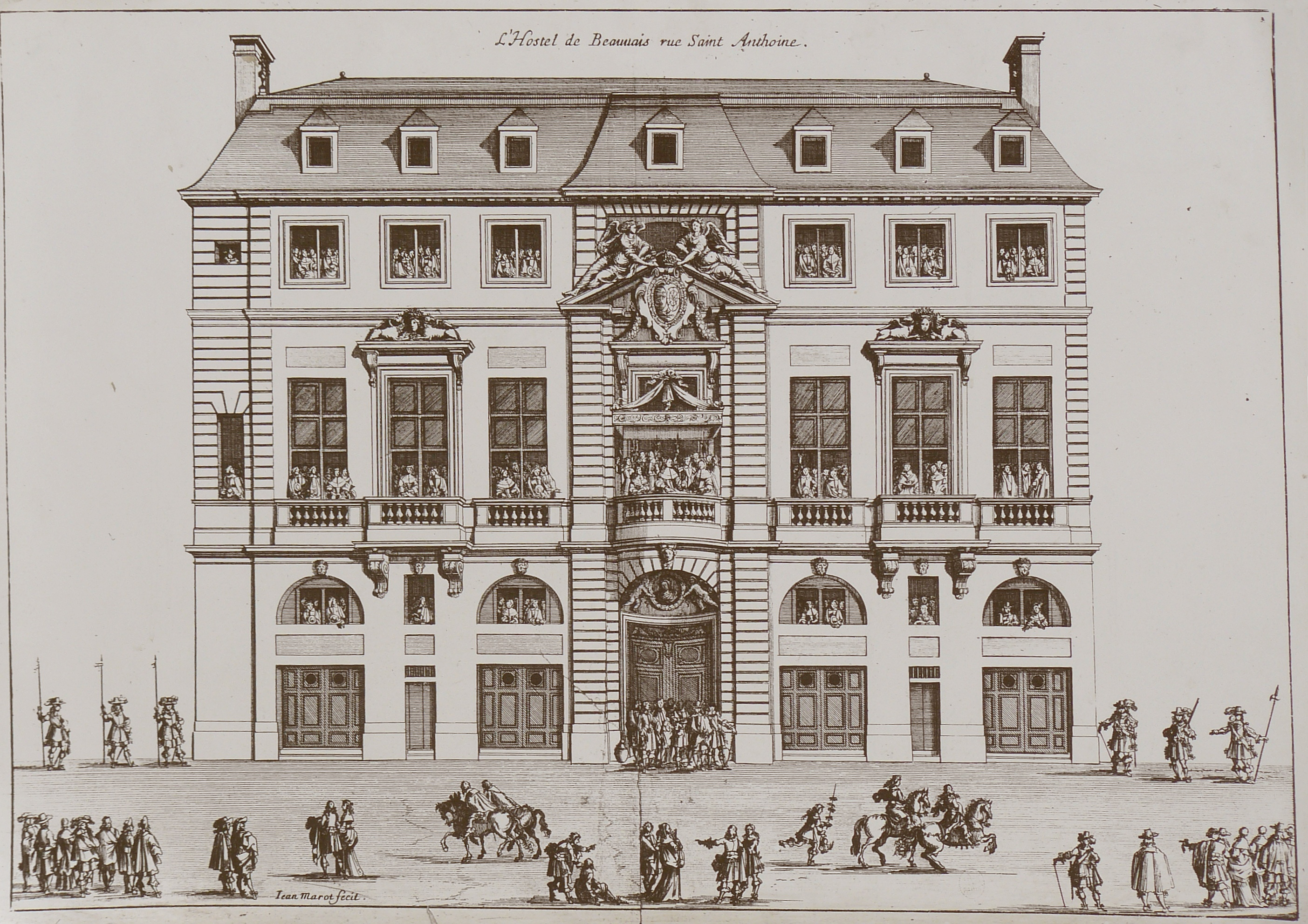 Engraving of the facade of the Hôtel de Beauvais (built 1654–1660? to designs by Antoine Le Pautre), shown during the procession on the rue Saint-Antoine which was part of the entry of Louis XIV into Paris at the time of his marriage to Maria Theresa of Spain in 1660. The owner of the hôtel, Catherine-Henriette Bellier, baroness de Beauvais, was first chambermaid to the Queen Mother, Anne of Austria, and both viewed the parade from the balcony.